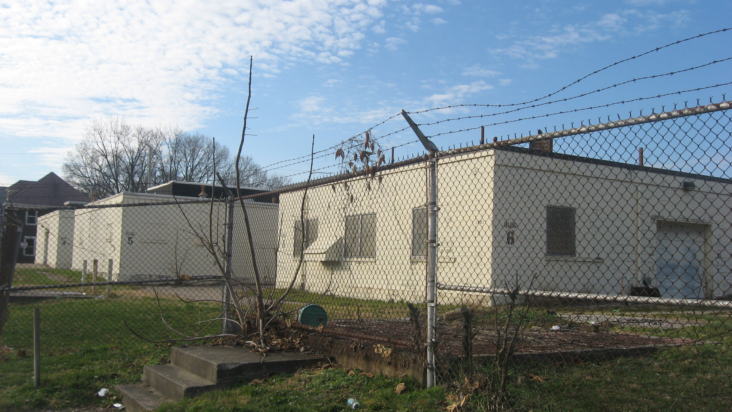 Buildings 4-6 of Unit III of the Dayton Project, located 1601 W. First Street in Dayton, Ohio, United States. Built in 1943 as part of the Manhattan Project, the complex is listed on the National Register of Historic Places.